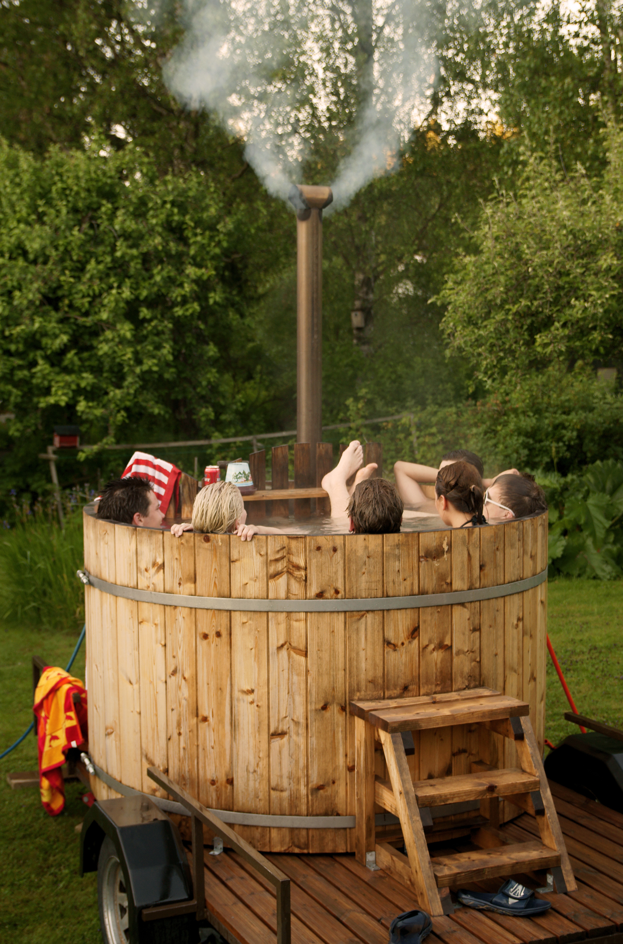 Weekend in a Finnish hot tub.